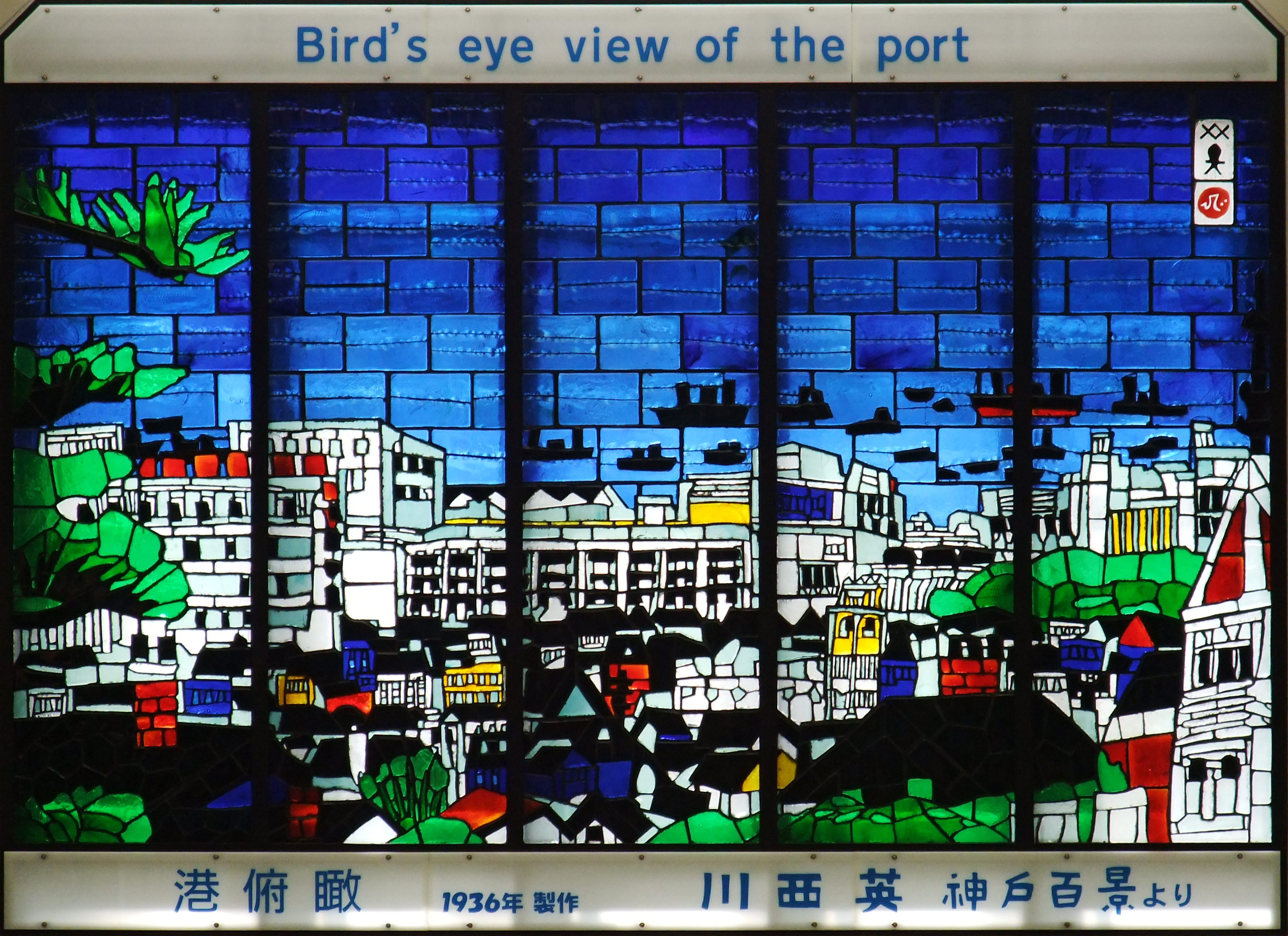 "Bird's eye view of the port" by Hide Kawanishi (reproduction by stained glass) at Sannomiya Center Street in Kobe, Hyogo prefecture, Japan